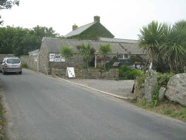 The Little Barn Café, Trevescan The palm trees are an indication of the mild climate in this area near Lands End.